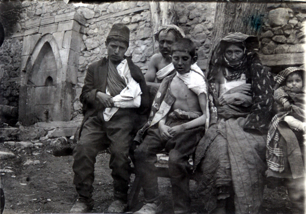 Wounded Muslim refugees at the Hasankale conflict of Caucasus Campaign in WWI.